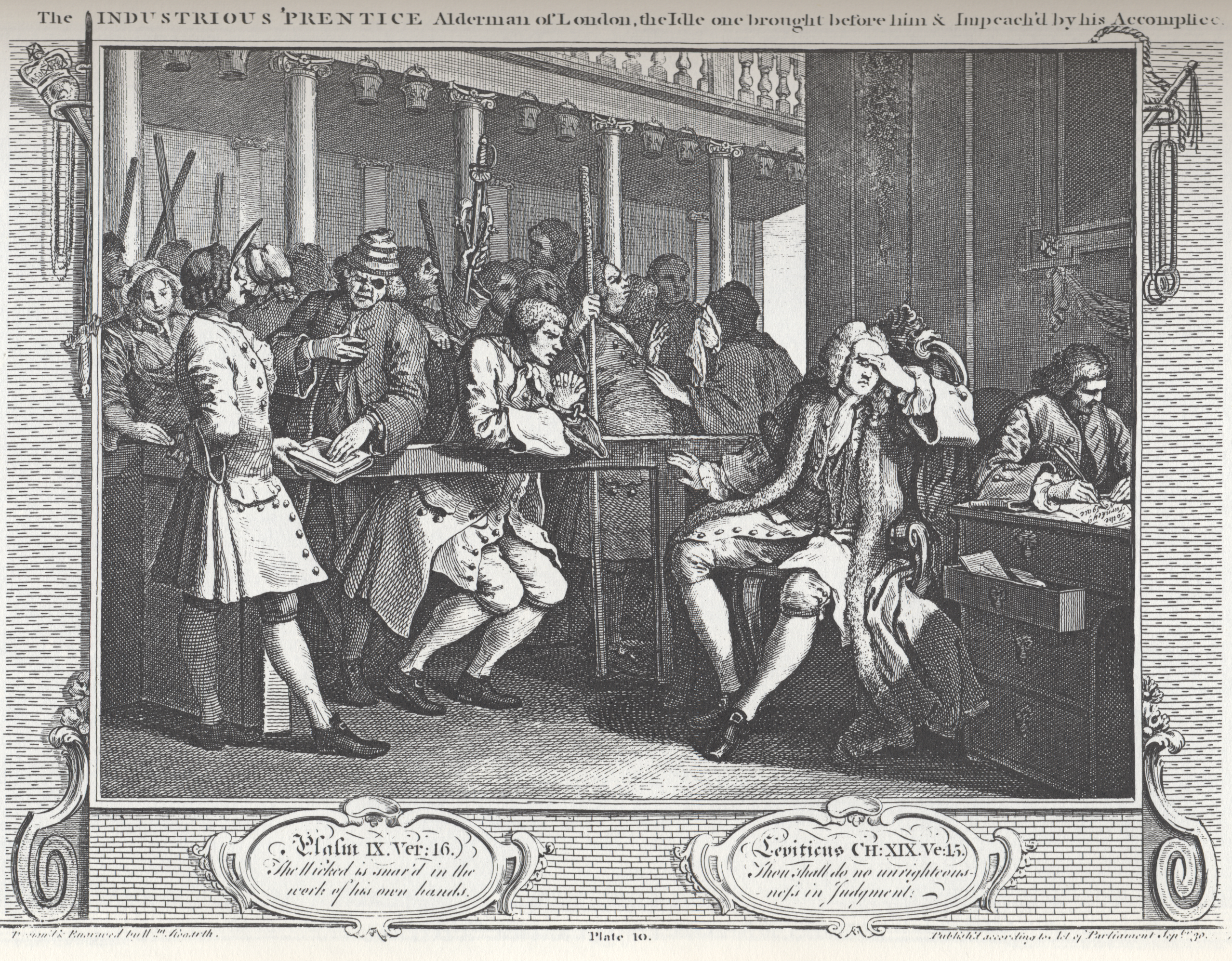 William Hogarth - Industry and Idleness, Plate 10; The Industrious 'Prentice Alderman of London, the Idle on brought before him & Impreach'd by his Accomplice